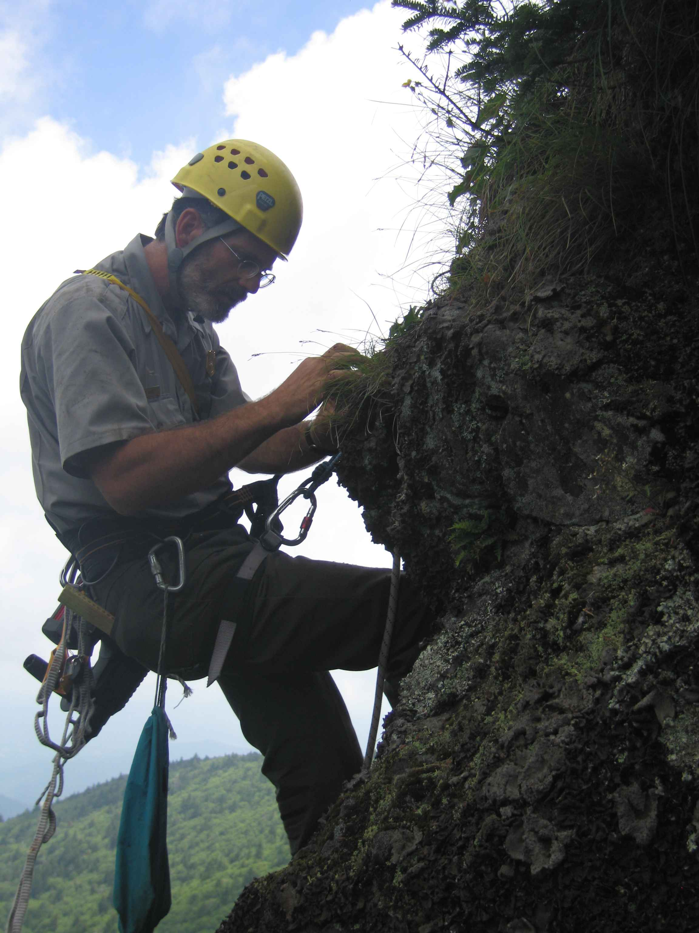 Image title: Inspecting spreading avens on a rock face Image from Public domain images website